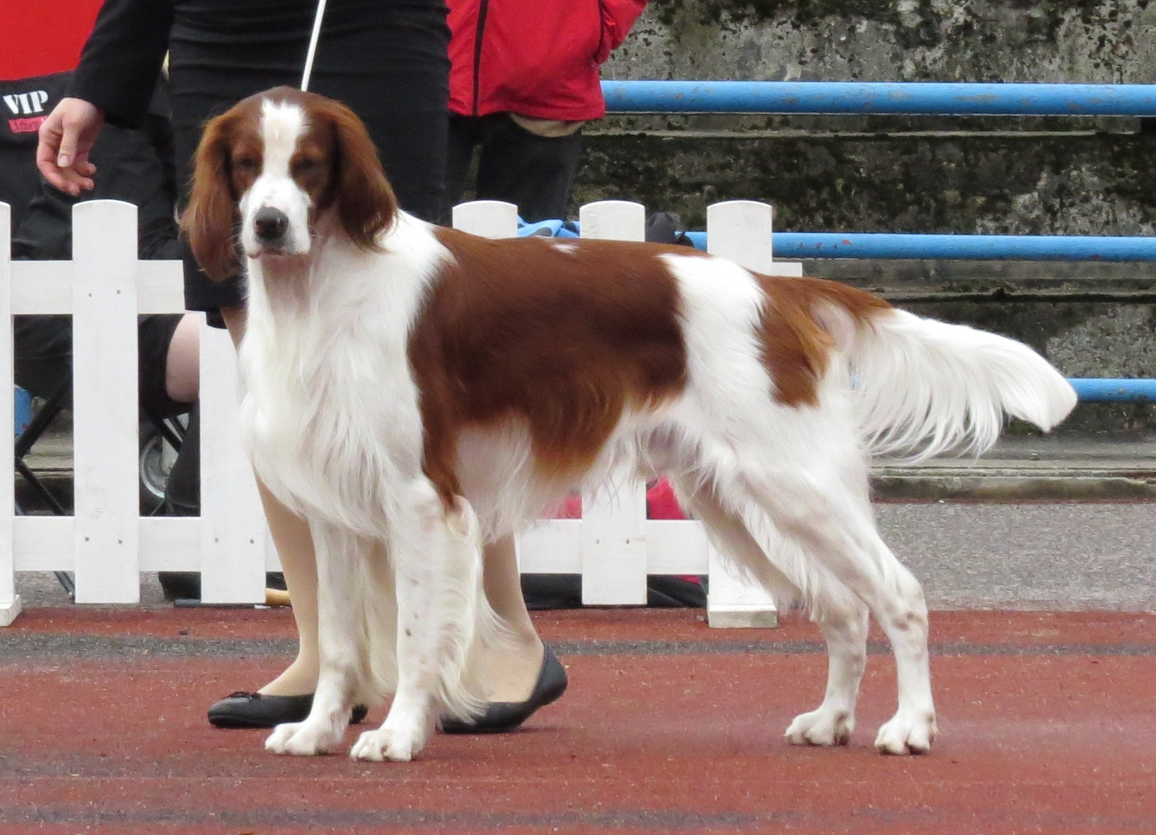 Irish Red And White Setter in Tallinn, duo CACIB, 17-18 Aug 2013